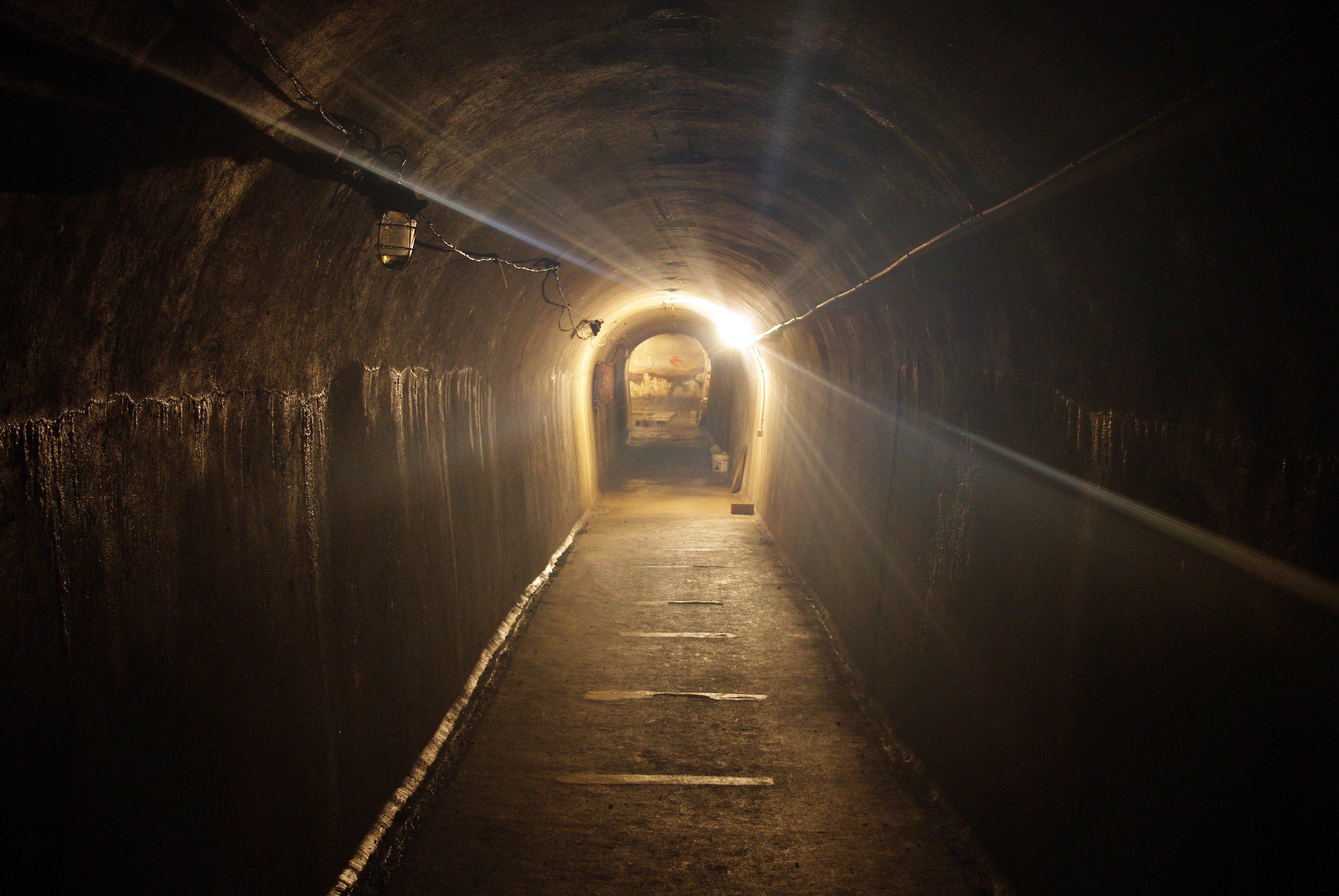 Air-raid shelter in Trieste, one of the tunnels.